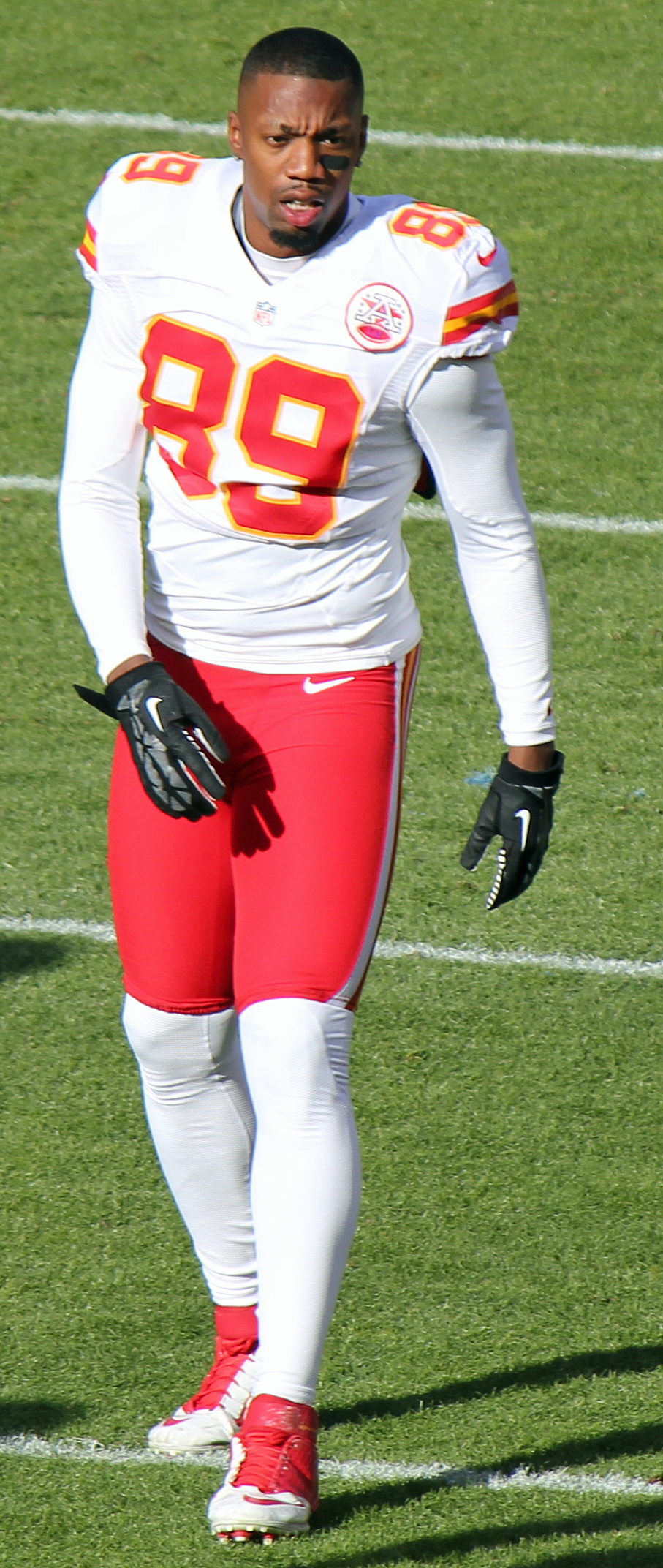 Jon Baldwin, a player on the National Football League.